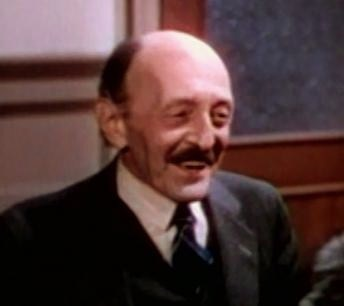 Clarence Wilson in A Star Is Born - cropped screenshot